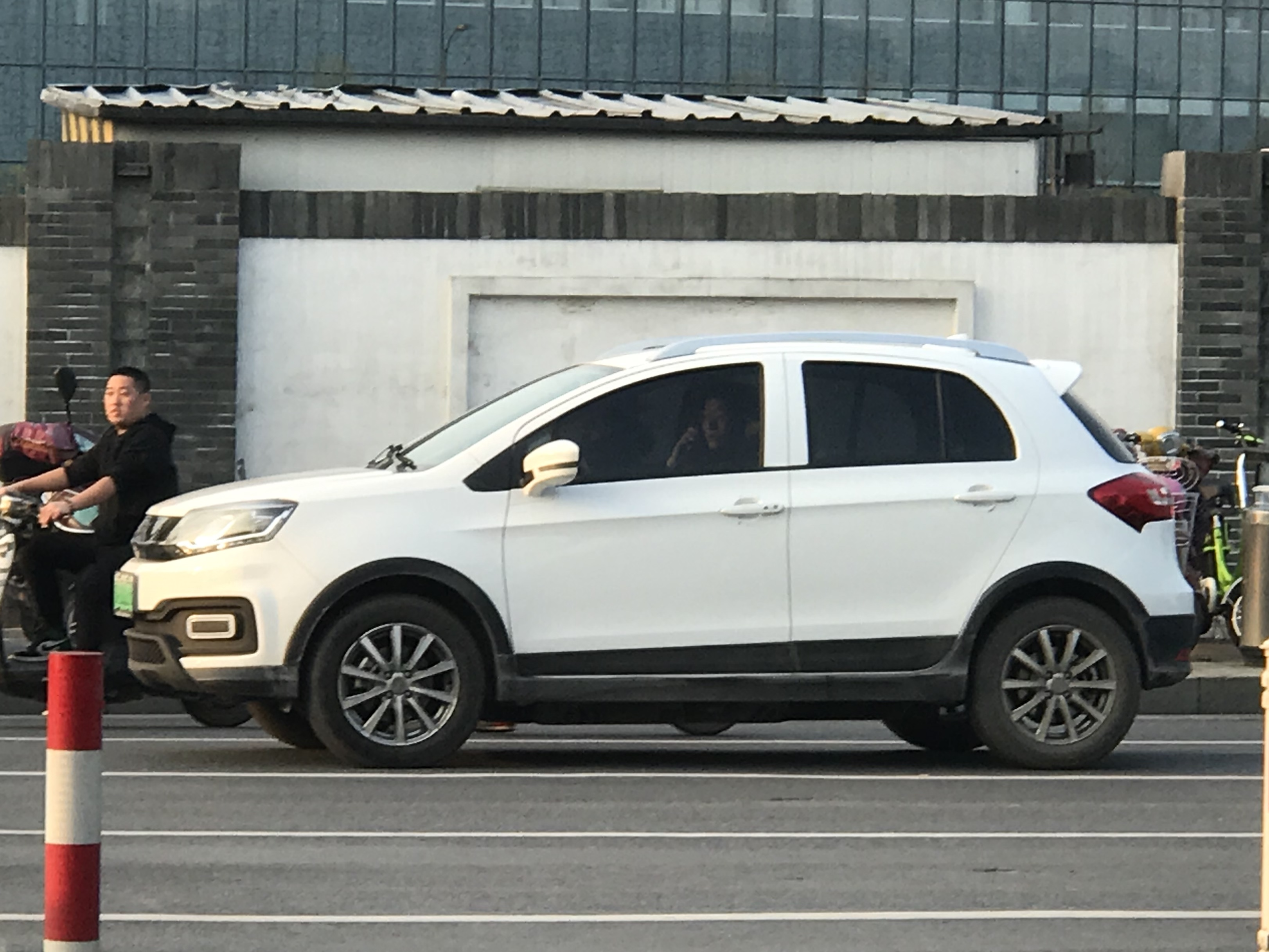 Yudo π1